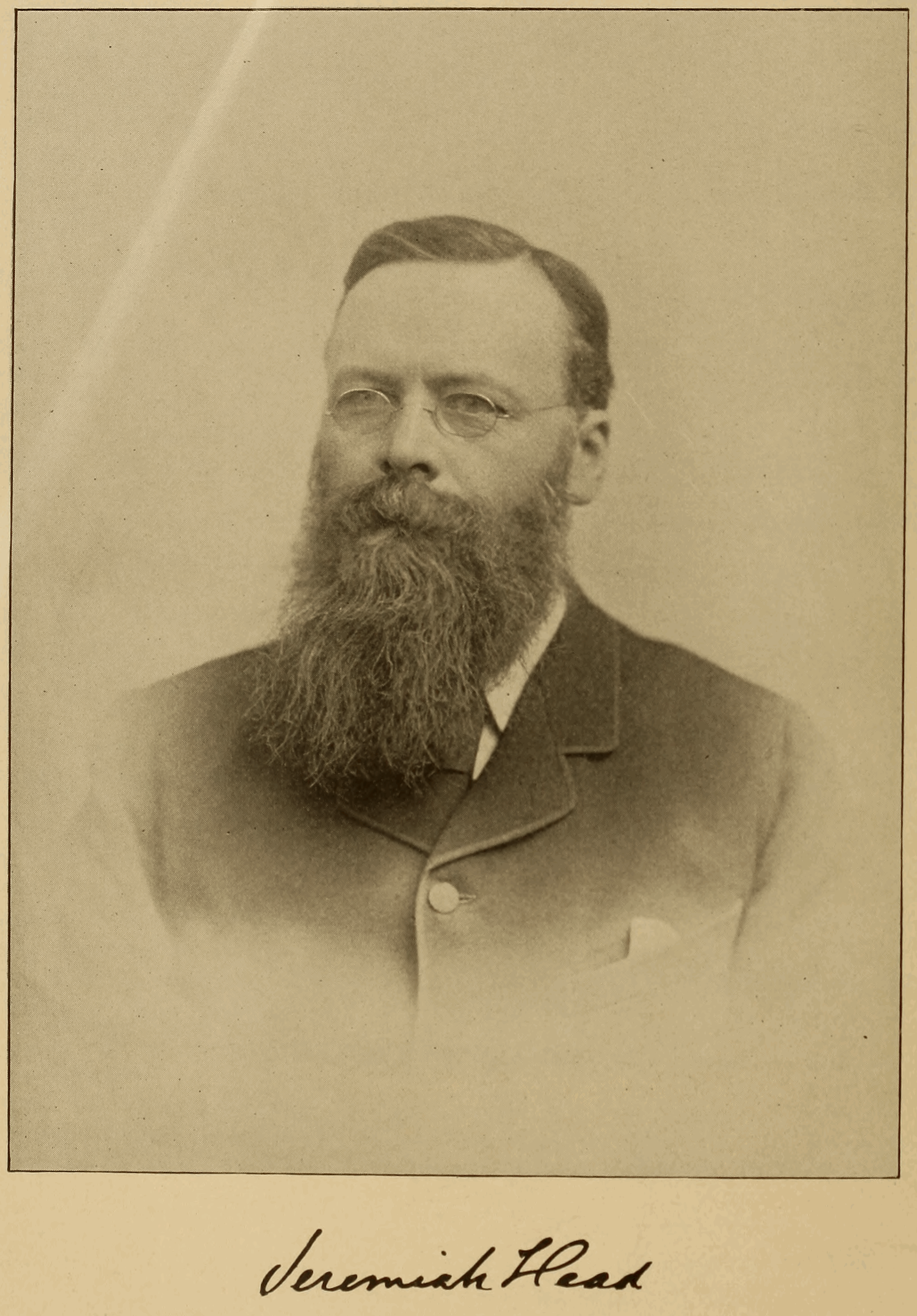 Cassier's Magazine of November 1895 had an article on page 74-76, titled Jeremiah Head. It was accompanied by this photo (including signature), on page 2.